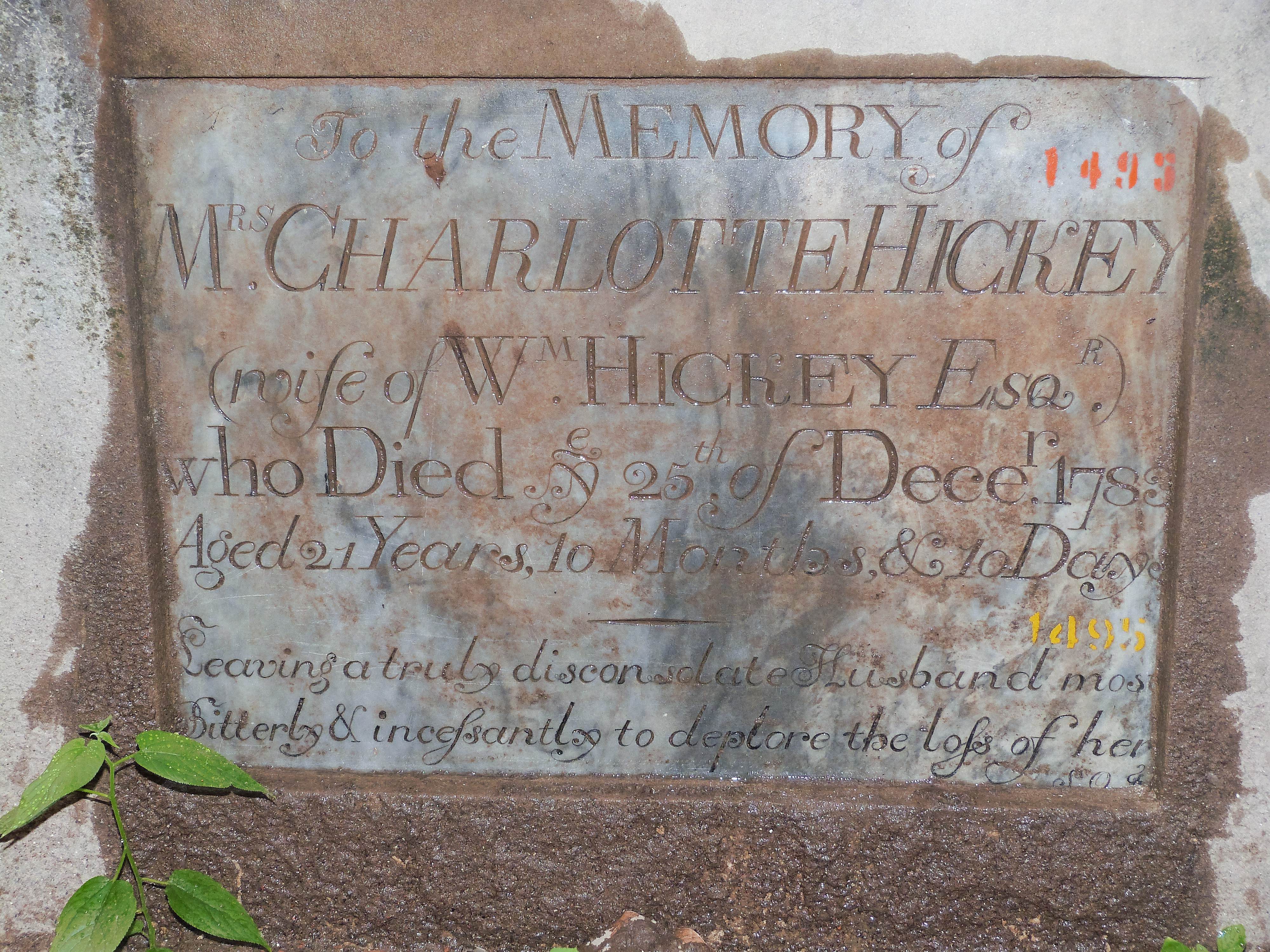 Tombstone of Charlotte Hickey, born Barry, first wife of William Hickey (1749-183), on Old English Cemetery, Park Street, Kolkata (tombstone #1495)